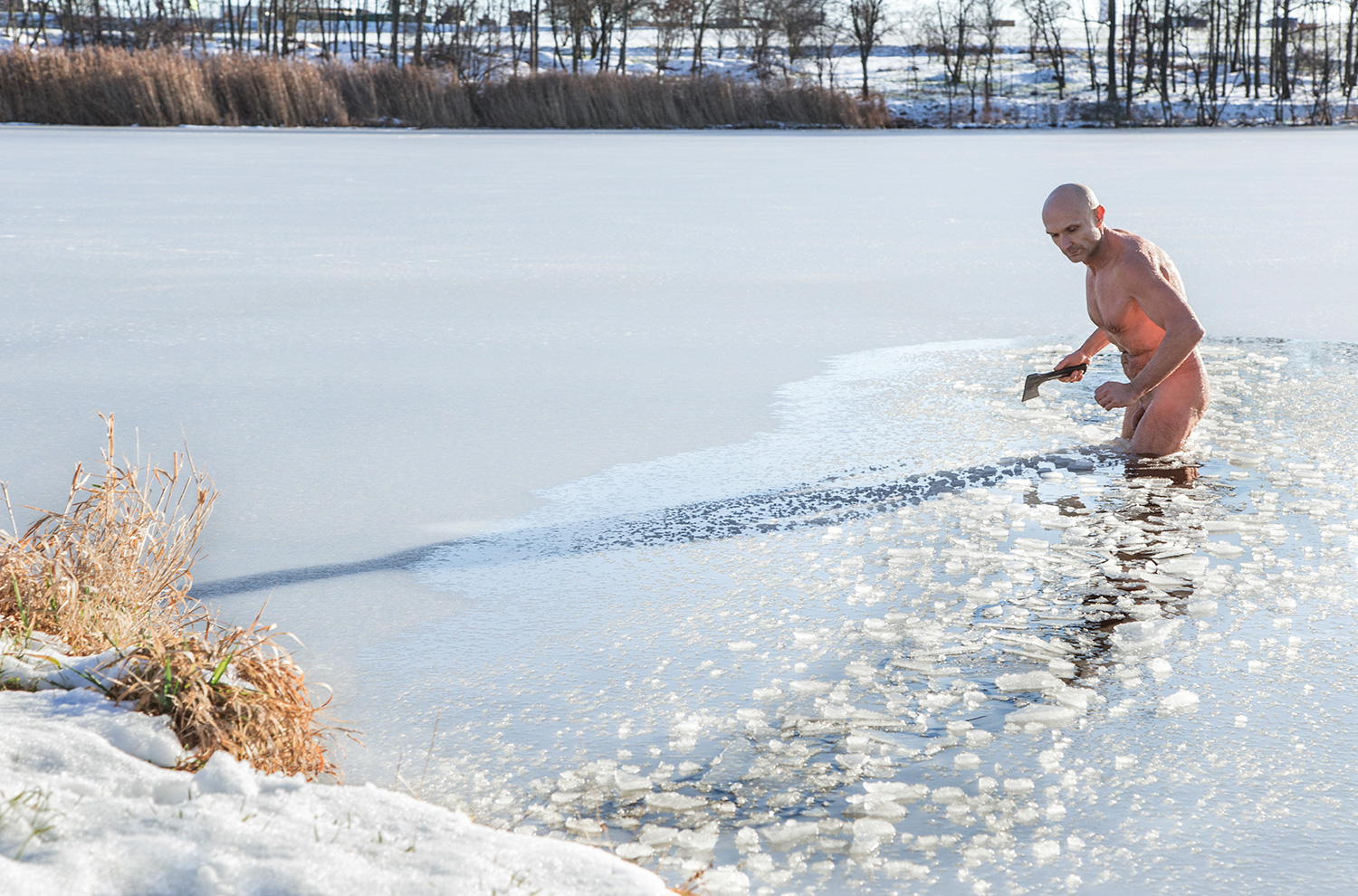 Martin Watch, From the Cycle Unique, Luboš Plný III, 2017